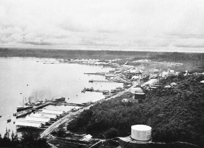 View over Balikpapan Bay and the oiltanks of the BPM